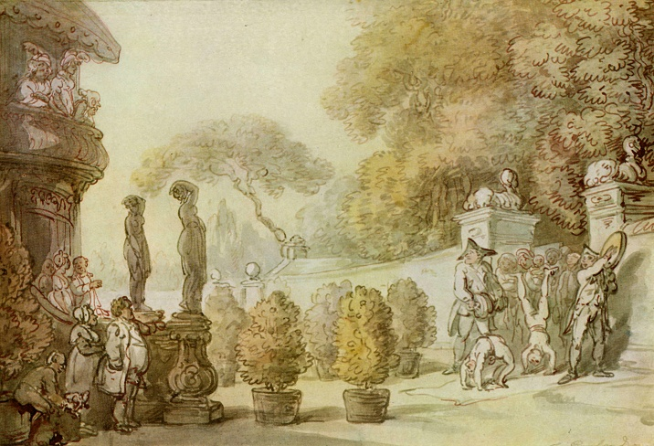 Thomas Rowlandson (1756–1827): Entrance to Vauxhall Gardens.